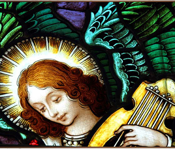 St. Cecilia, a patron of church music from 15 century